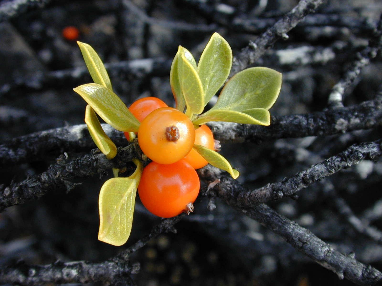 Coprosma montana (fruit and leaves). Location: Maui, red flow Haleakala National Park